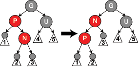 Produced by Derrick Coetzee in Illustrator and Photoshop for the red-black tree page. Explains insertion of a node when its parent is red, its uncle is black, and it is its parent's right child (case 4). Reduces to case 5. Size reduced with pngcrush.